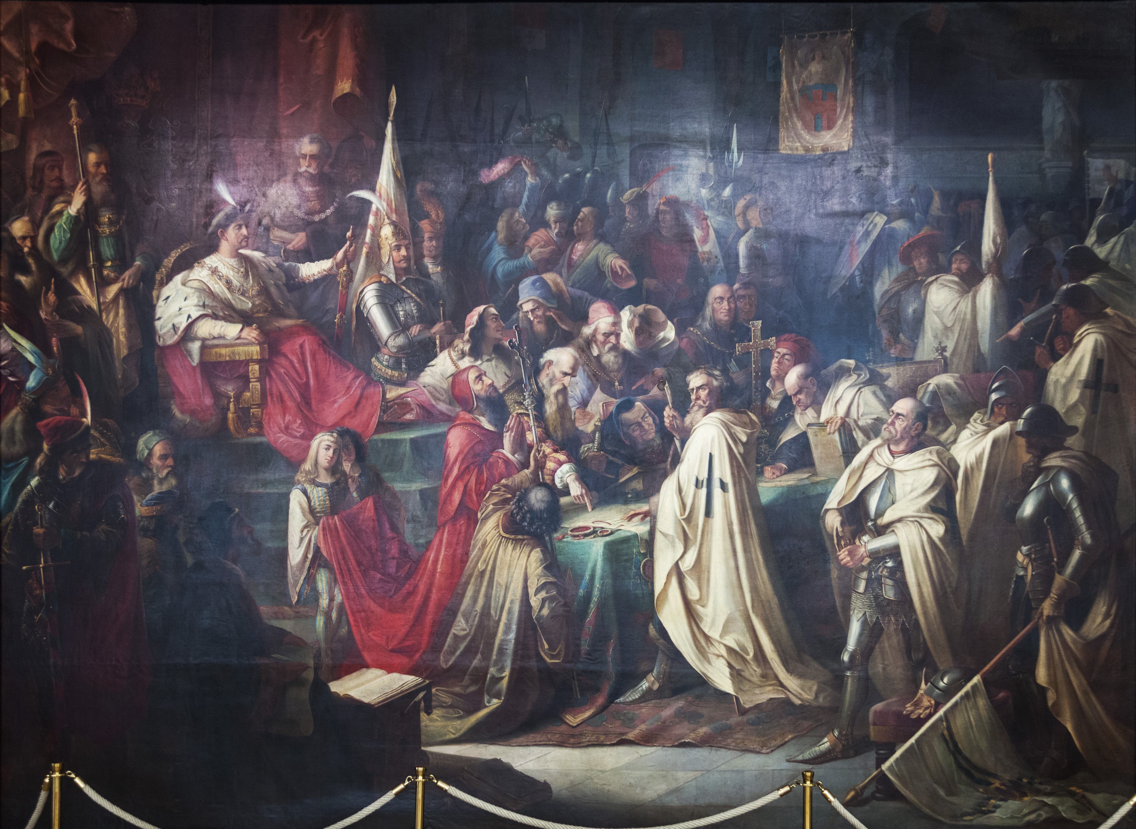 Second Peace of Thorn on the Marian Jaroczyński painting (1873) exhibited in District Museum in Toruń.